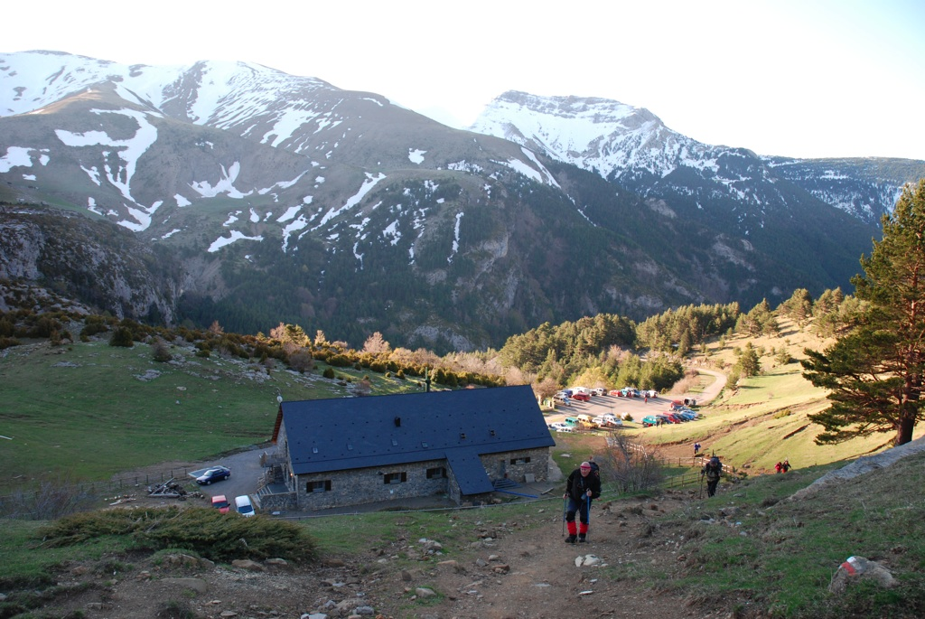 Departing mountain hut, Lizara, Spain